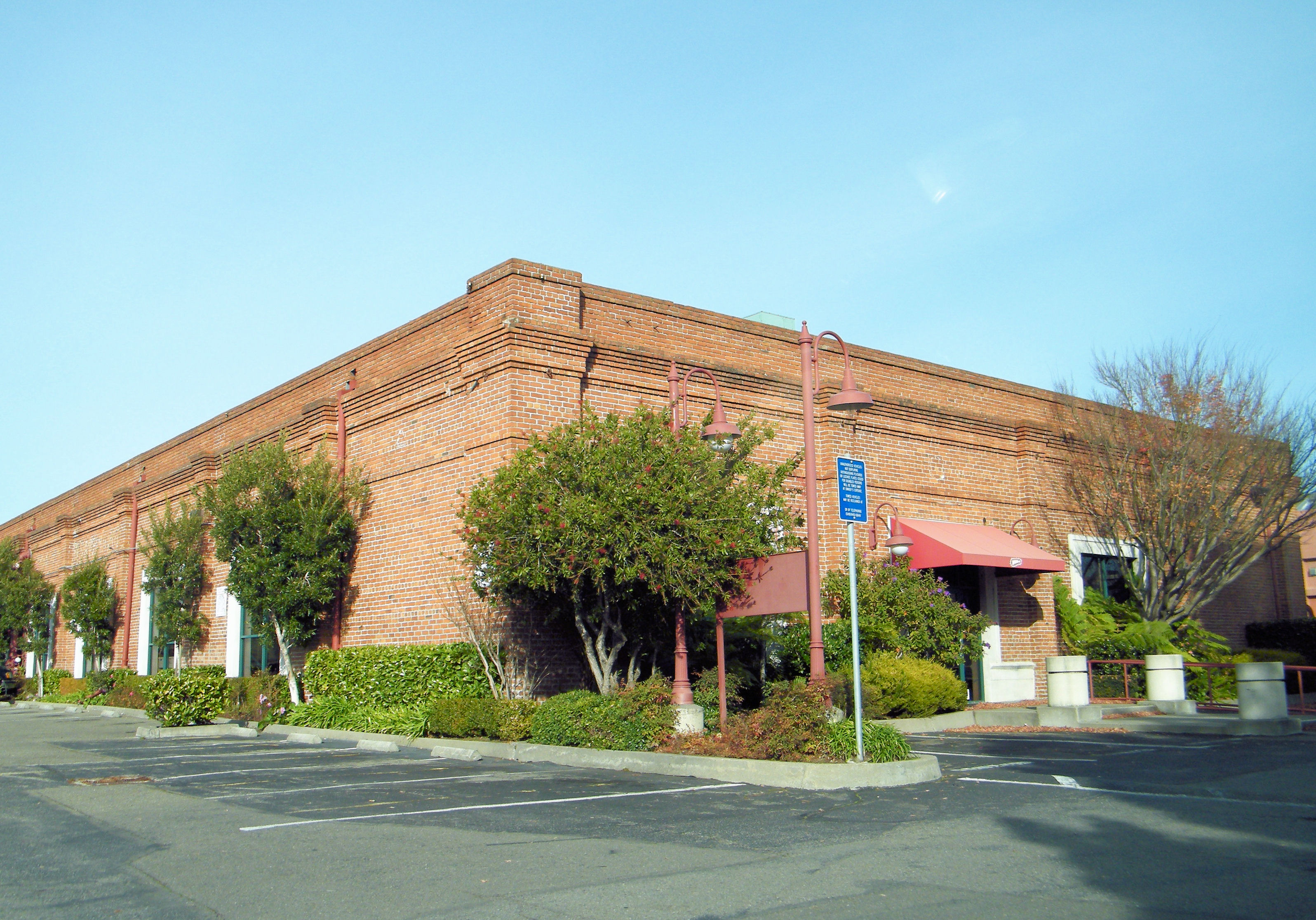 Wham-O headquarters in Emeryville.